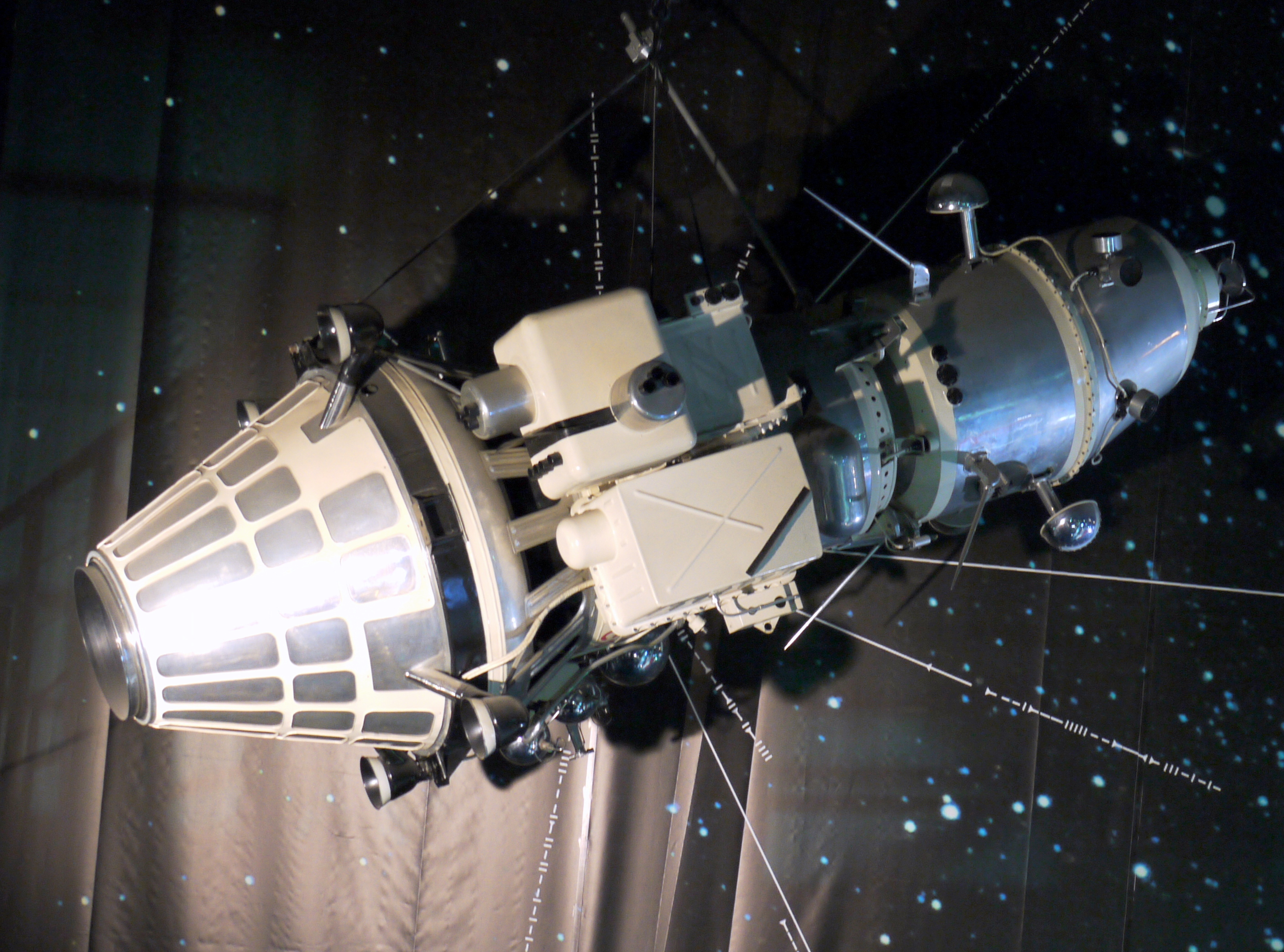 Mockup of the Lunar 10 soviet satellit (1966), Museum of Air and Space Paris, Le Bourget (France)